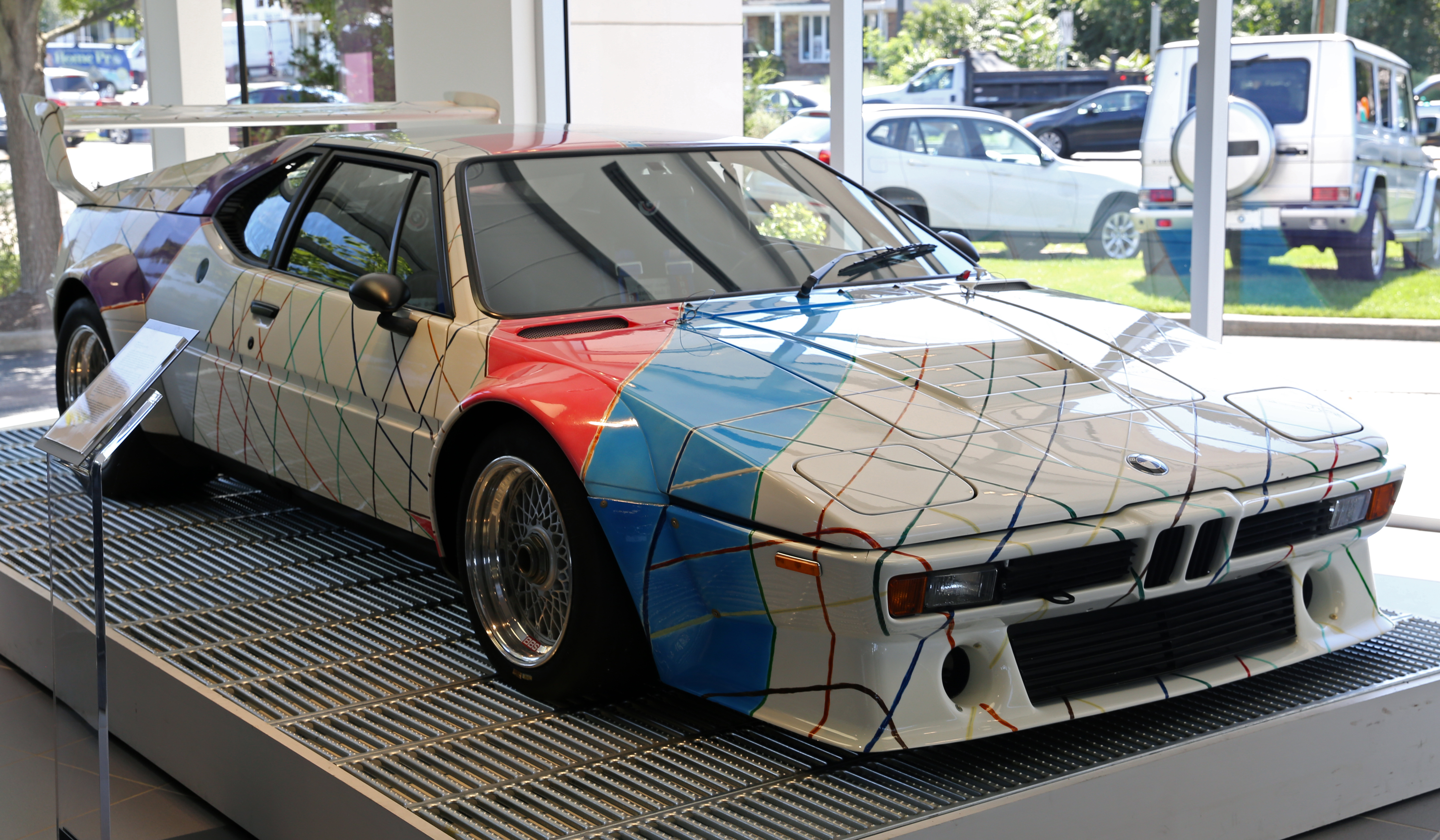 1979 BMW M1 Pro Car, an unofficial member of BMW's Art Car series. This one was commissioned by Stella's friend, racer Peter Gregg, and carries a paintjob intended to commemorate Ronnie Peterson, another racer friend of Stella's who had died after a crash at Monza in 1978. Belonged to the Guggenheim gallery for some time, but was sold to BMW Southampton owner Jonathan Sobel who has been displaying the car at their Southampton show room since 2012.